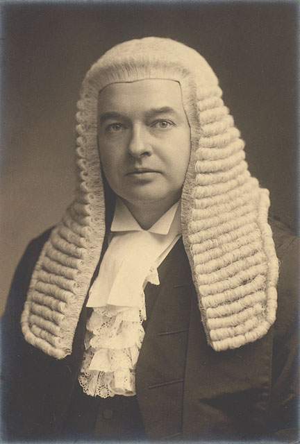 A portrait of British politician and judge Gordon Hewart, 1st Viscount Hewart (7 January 1870 – 5 May 1943).